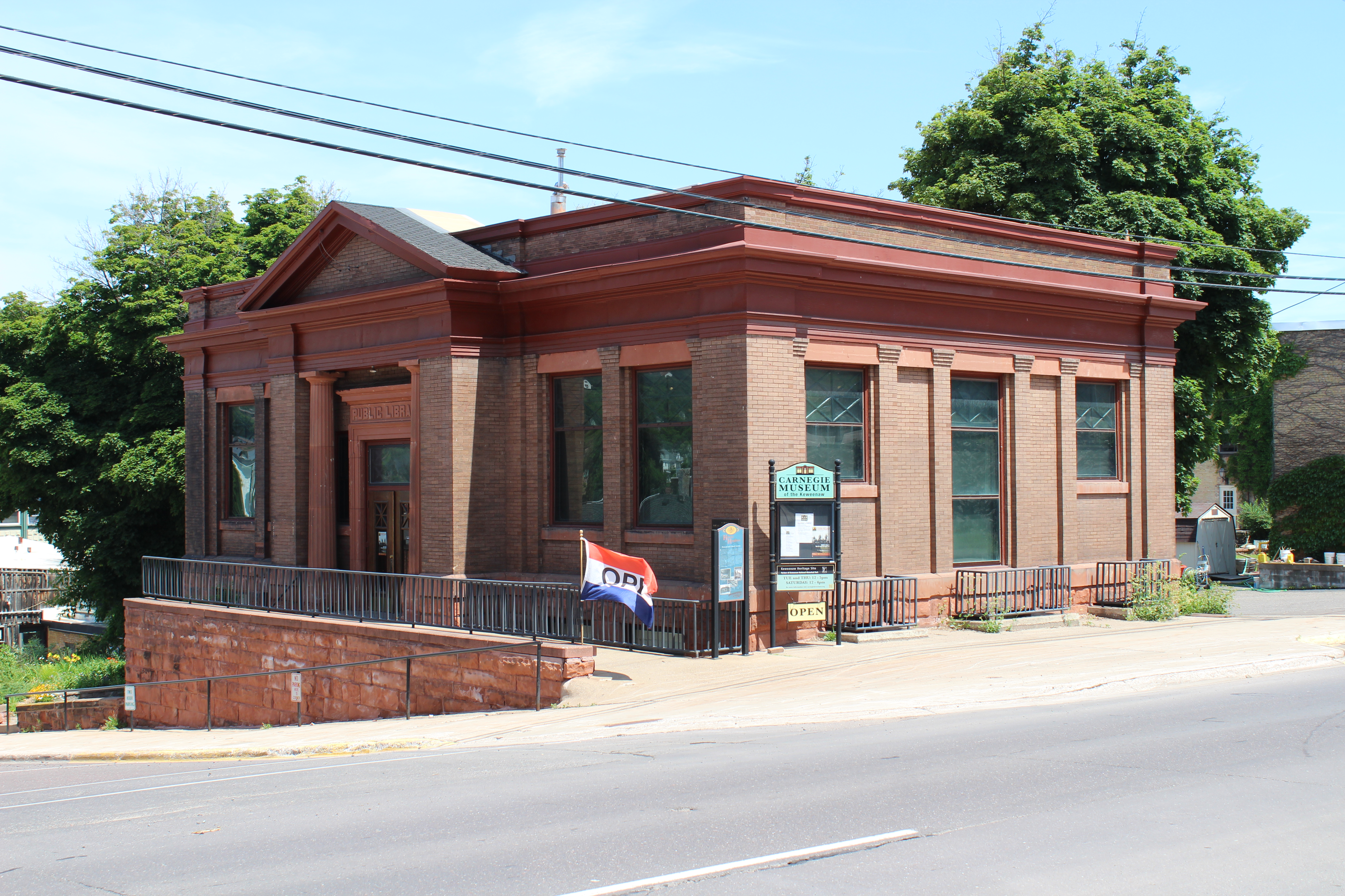 Carnegie Museum of the Keweenaw. Looking northeast.